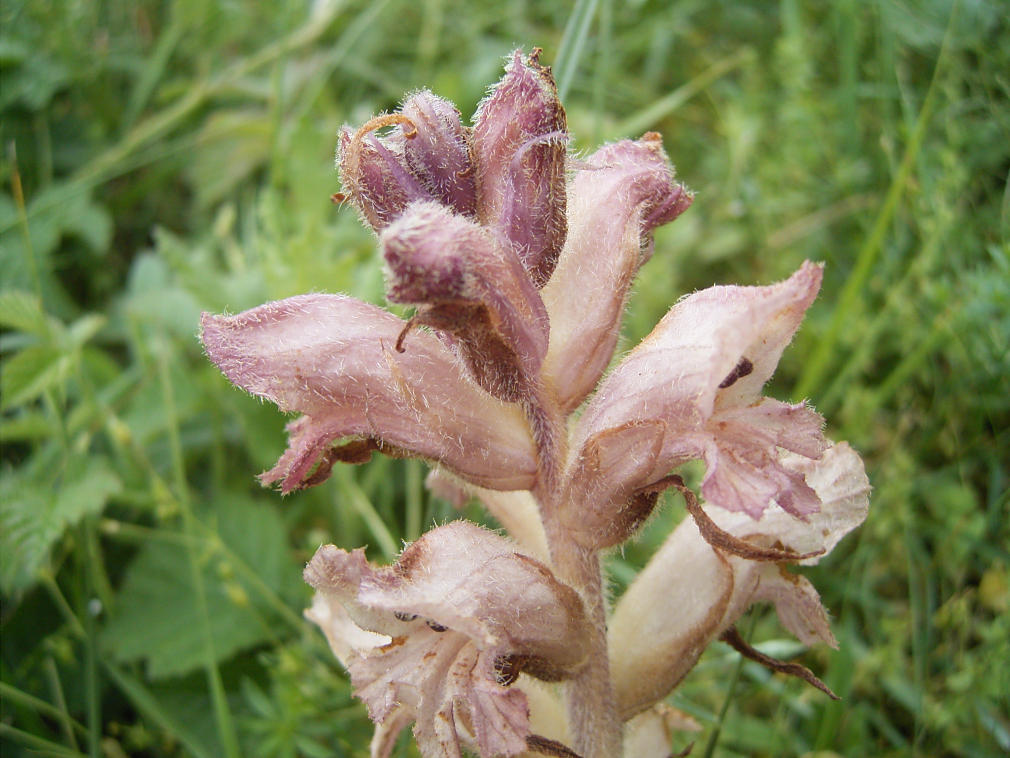 This picture shows the flowers of Orobanche caryophyllaceae. I took this photo on June 4, 2005, in Katwijk, Netherlands.